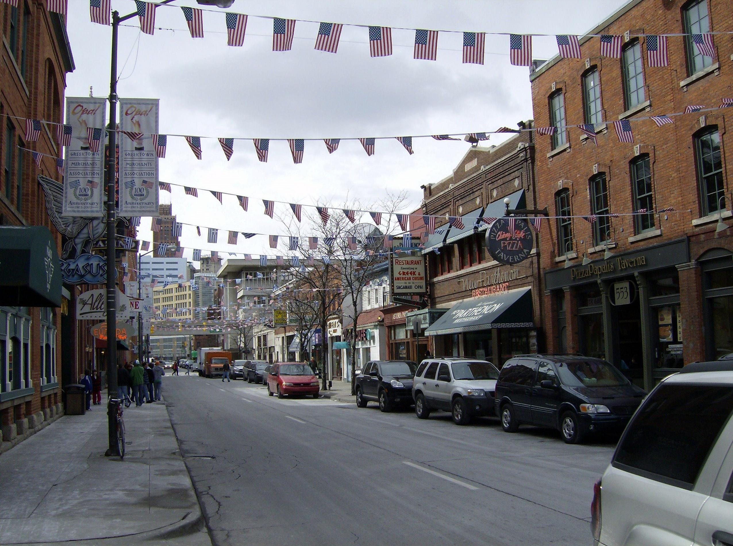 self made